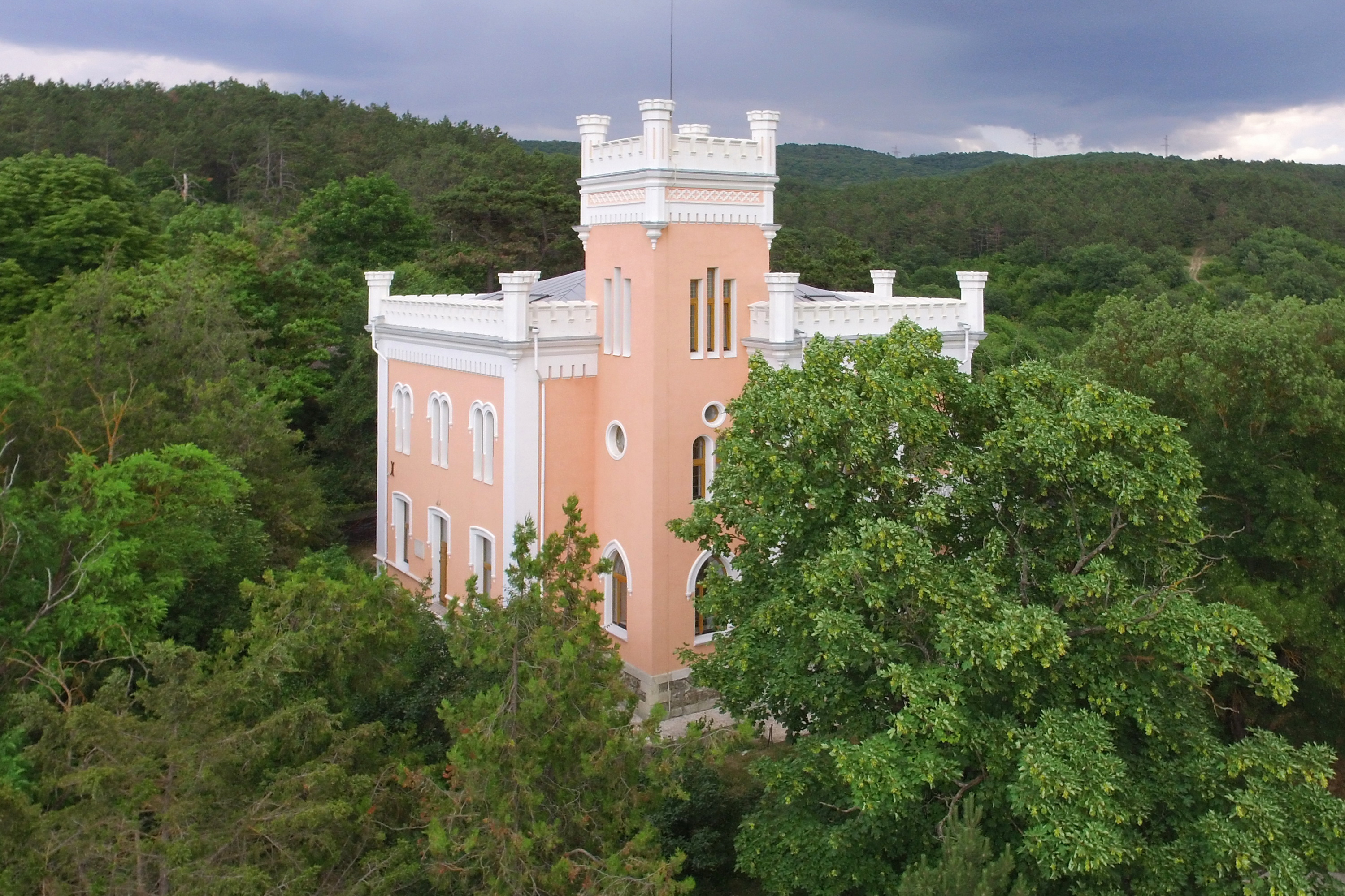 Fersmanovo, Kessler's (Fersman's) house, 2018.06.16 (05) 1 (43537902332)